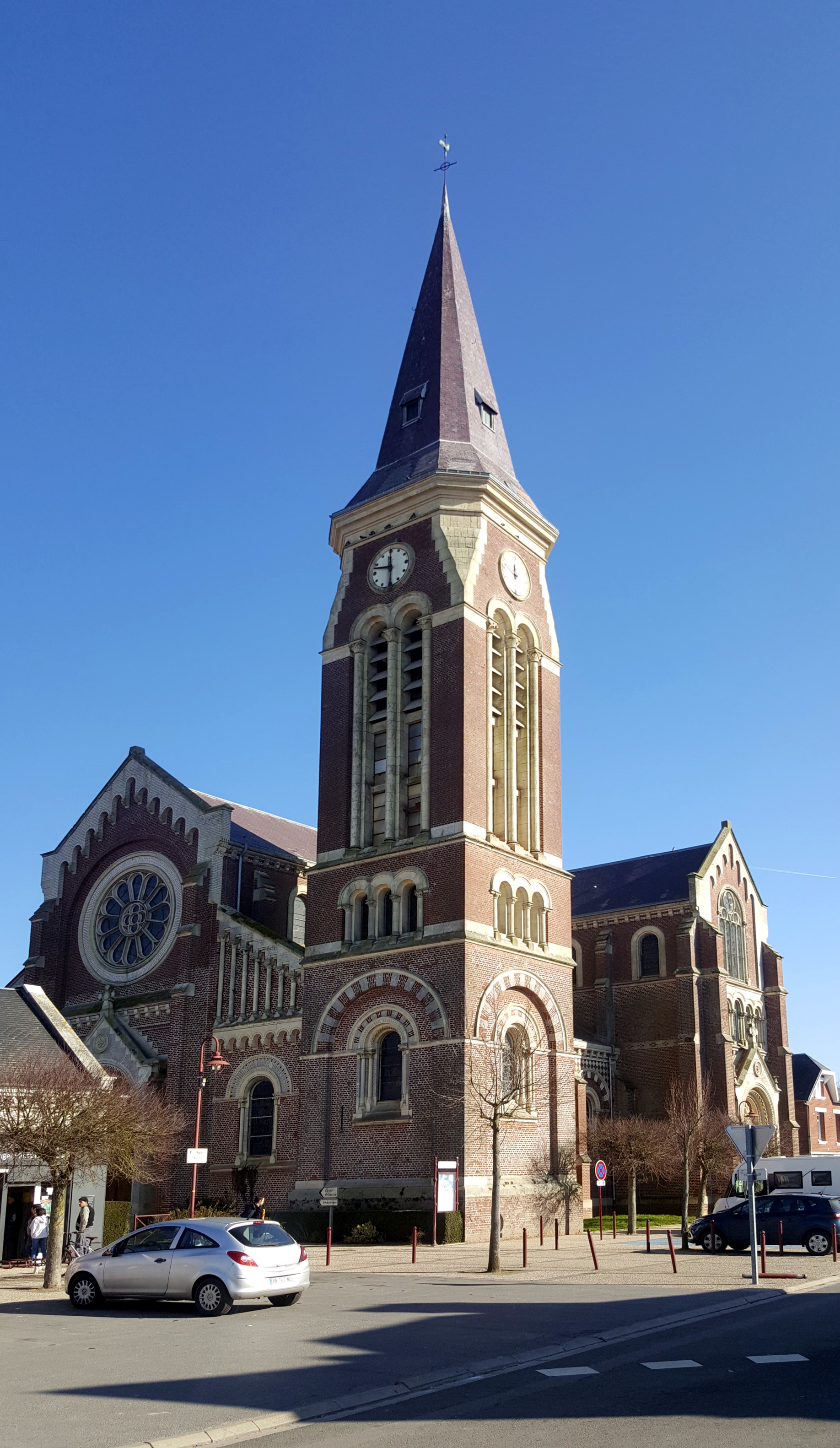 Rosieres-en-Santerre's Church, a small town in France.